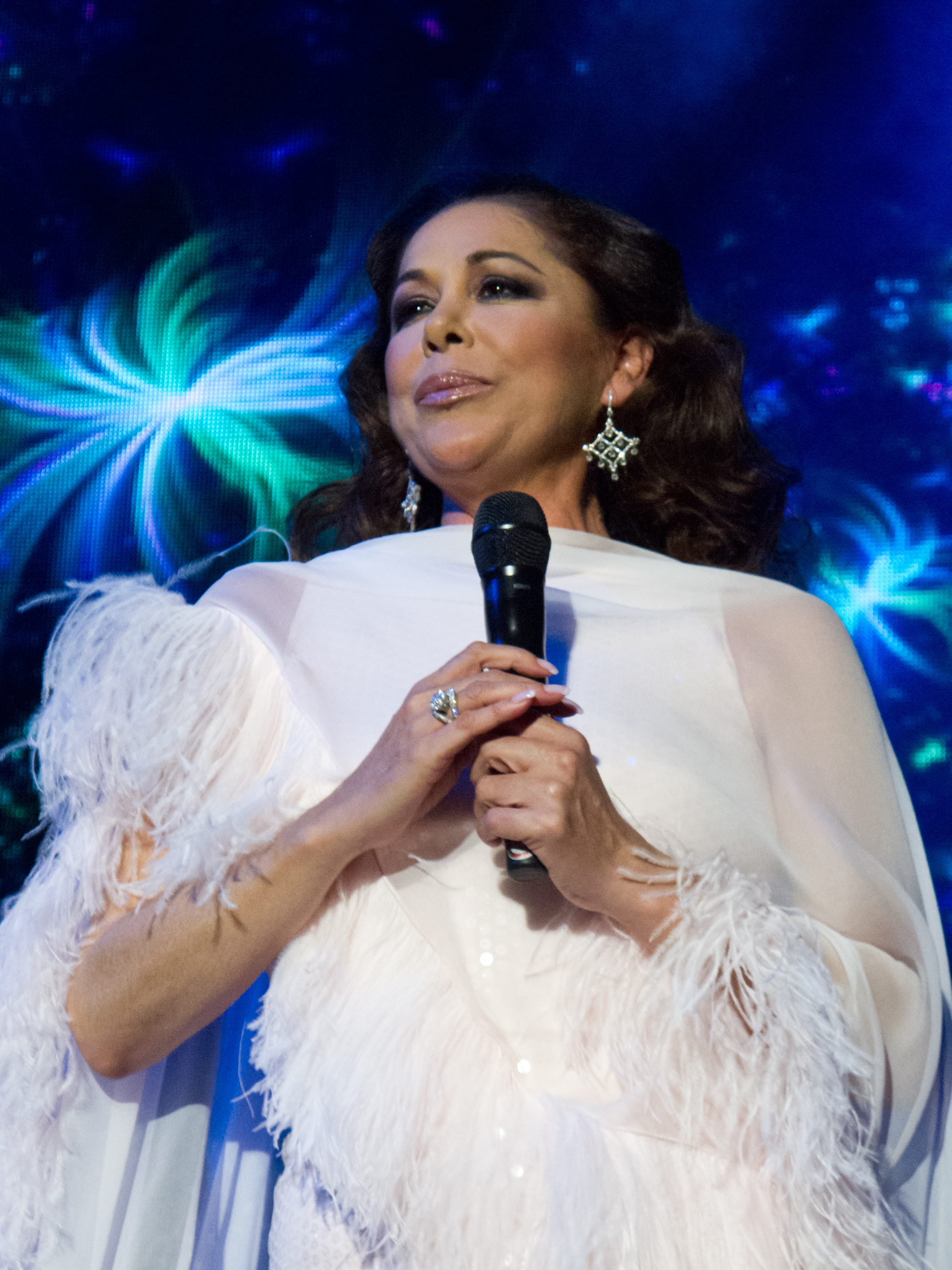 Isabel Pantoja live in Madrid in 2012.